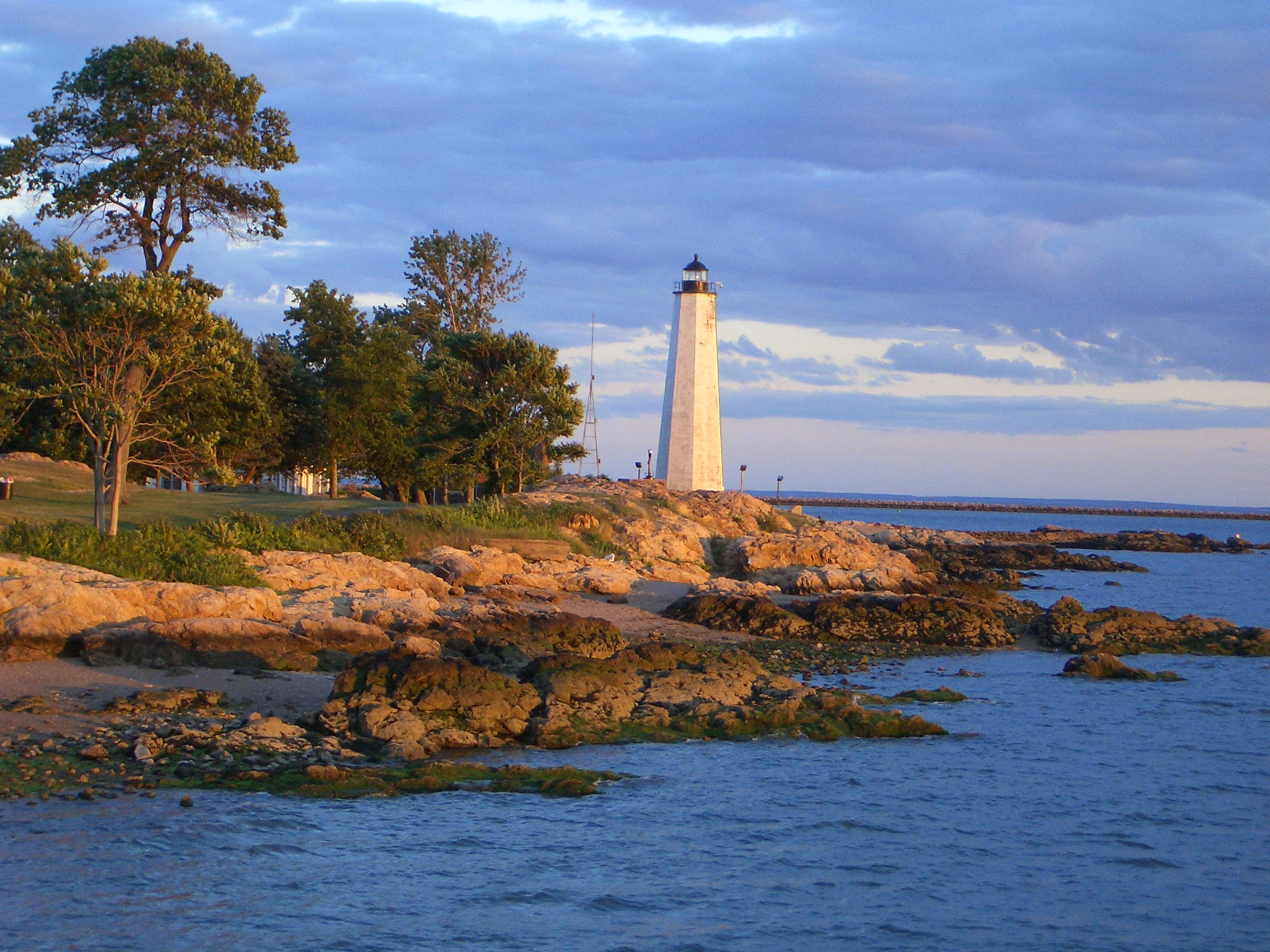 The Lighthouse at Lighthouse Point Park, New Haven, Connecticut, USA.